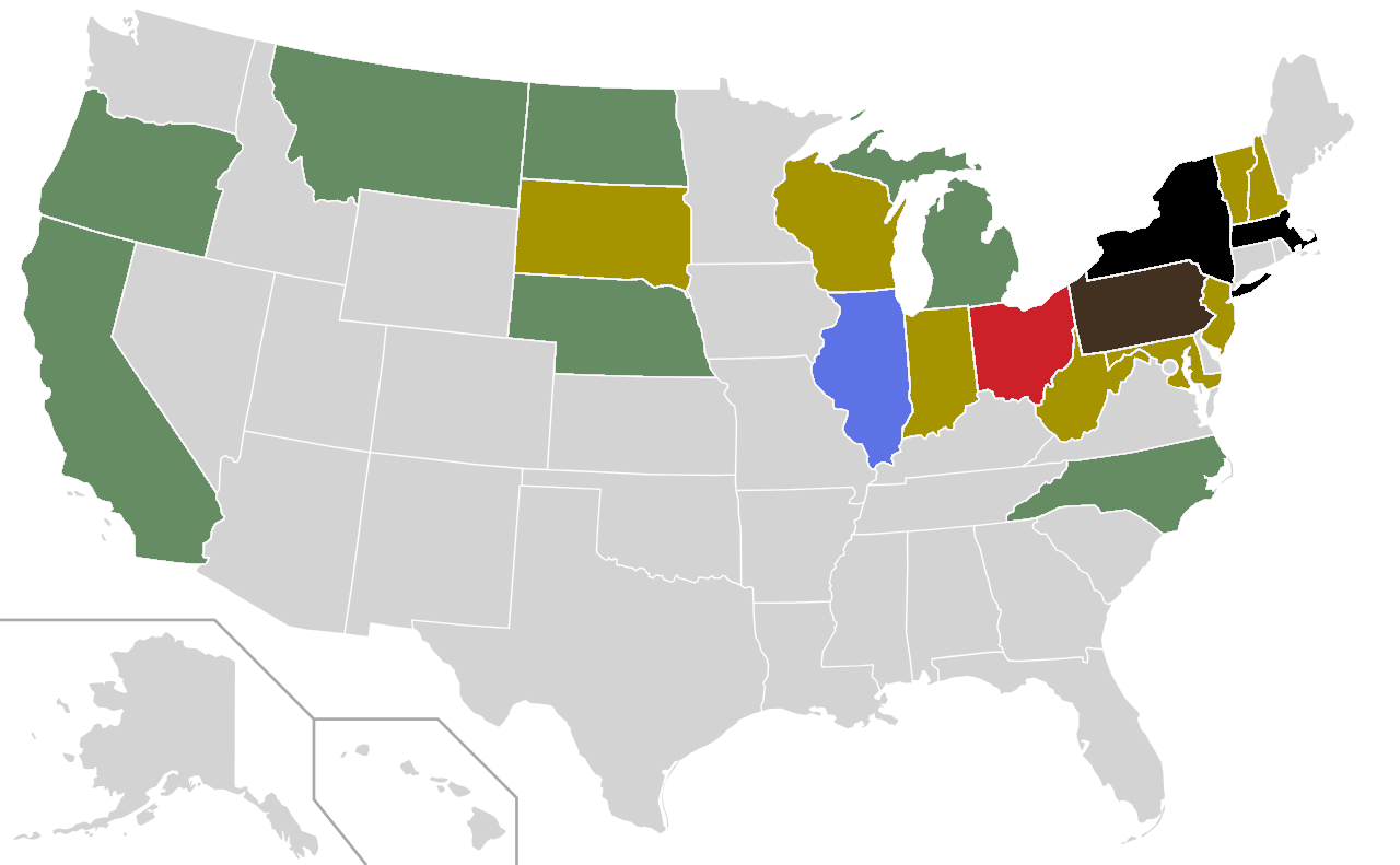 Results map of the Republican Party presidential primaries, 1920.